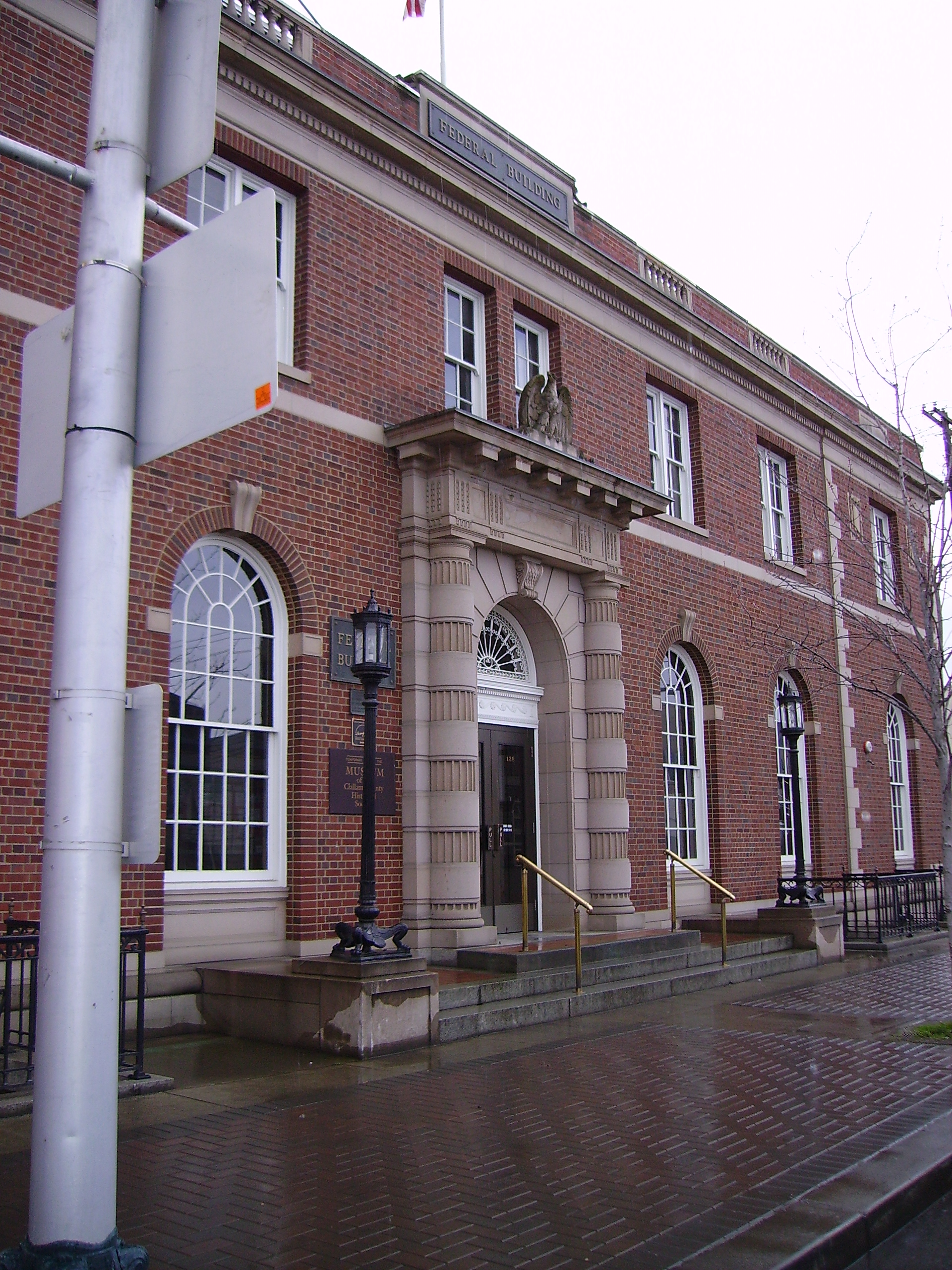 author and source is self, not on internet